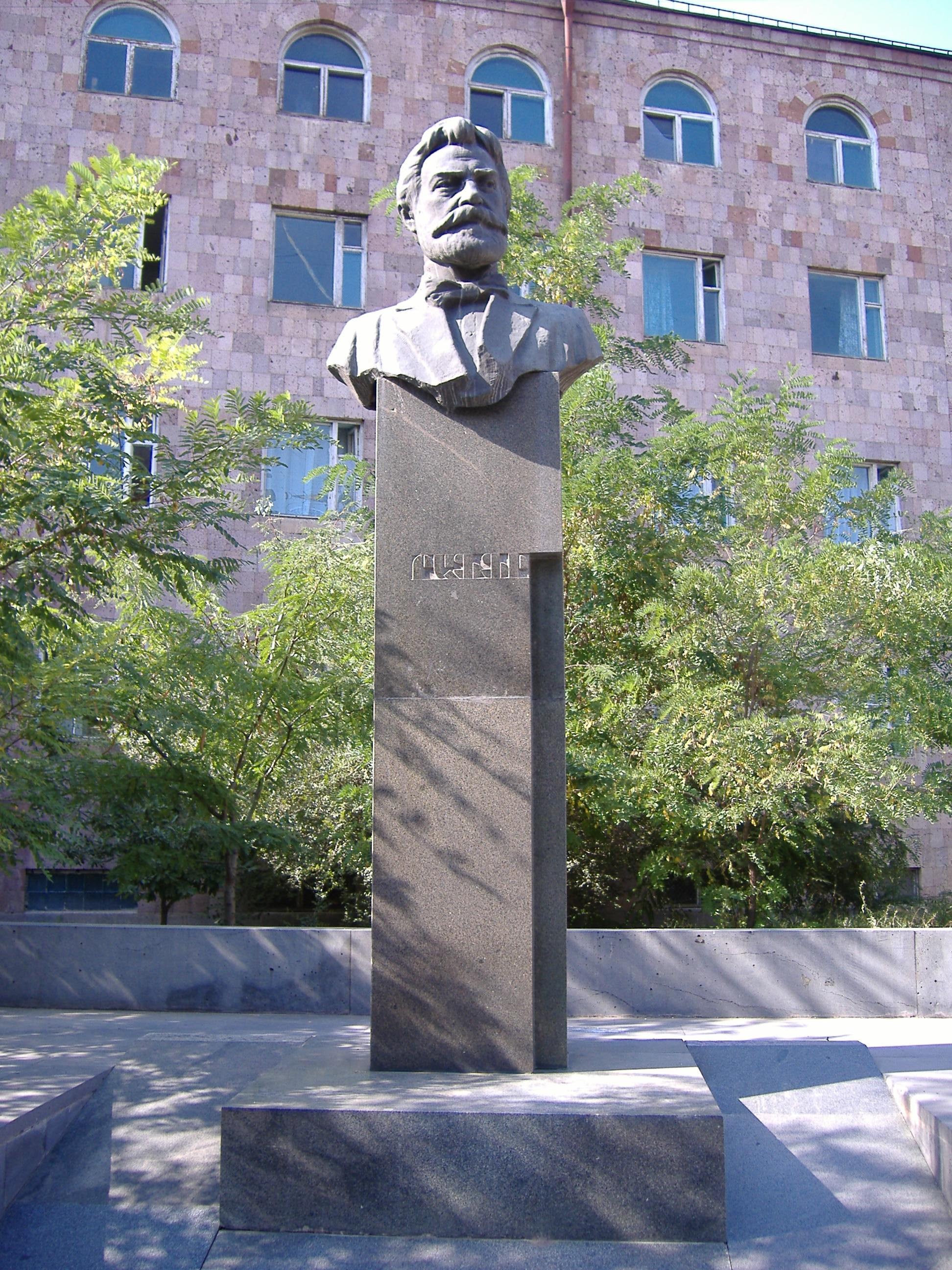 Monument to Raffi in Komitas Avenue, Yerevan, Armenia